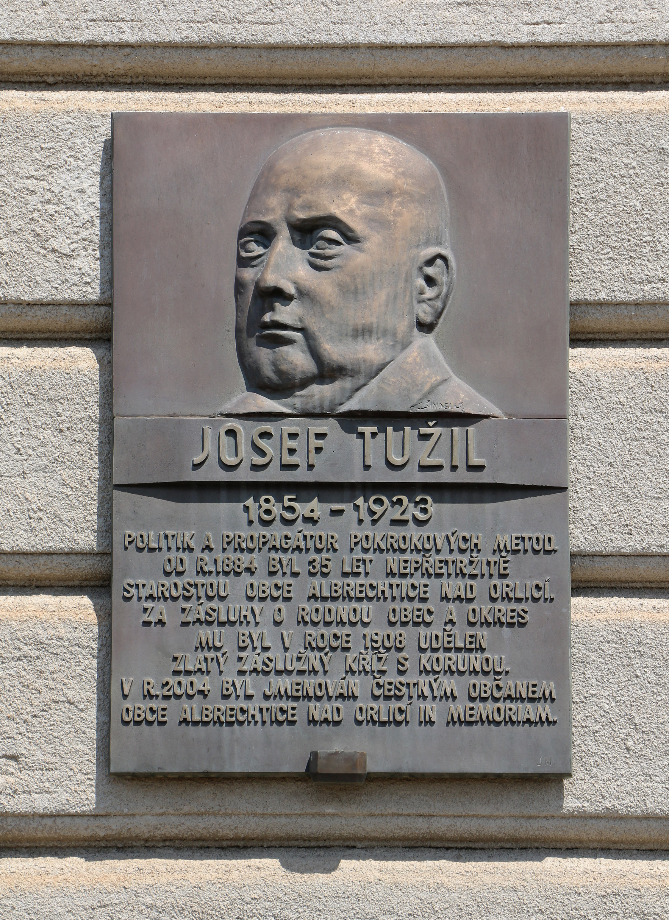 Plaque of Josef Tužil in Albrechtice nad Orlicí, Czech Republic.